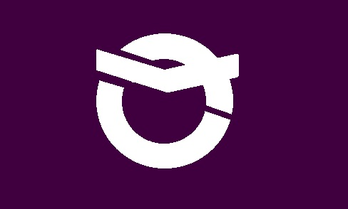 Flag of Sakai Ibaraki